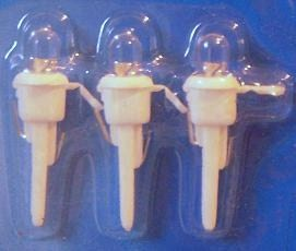 5mm white LEDs with polarized wedge bases for mini Christmas lights. This particular type is used on Philips and most store brands in North America. These are still sealed in a carded blister pack.